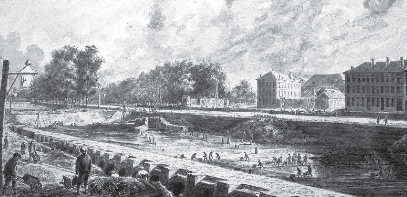 Digging of the Brussels-Charleroi Canal